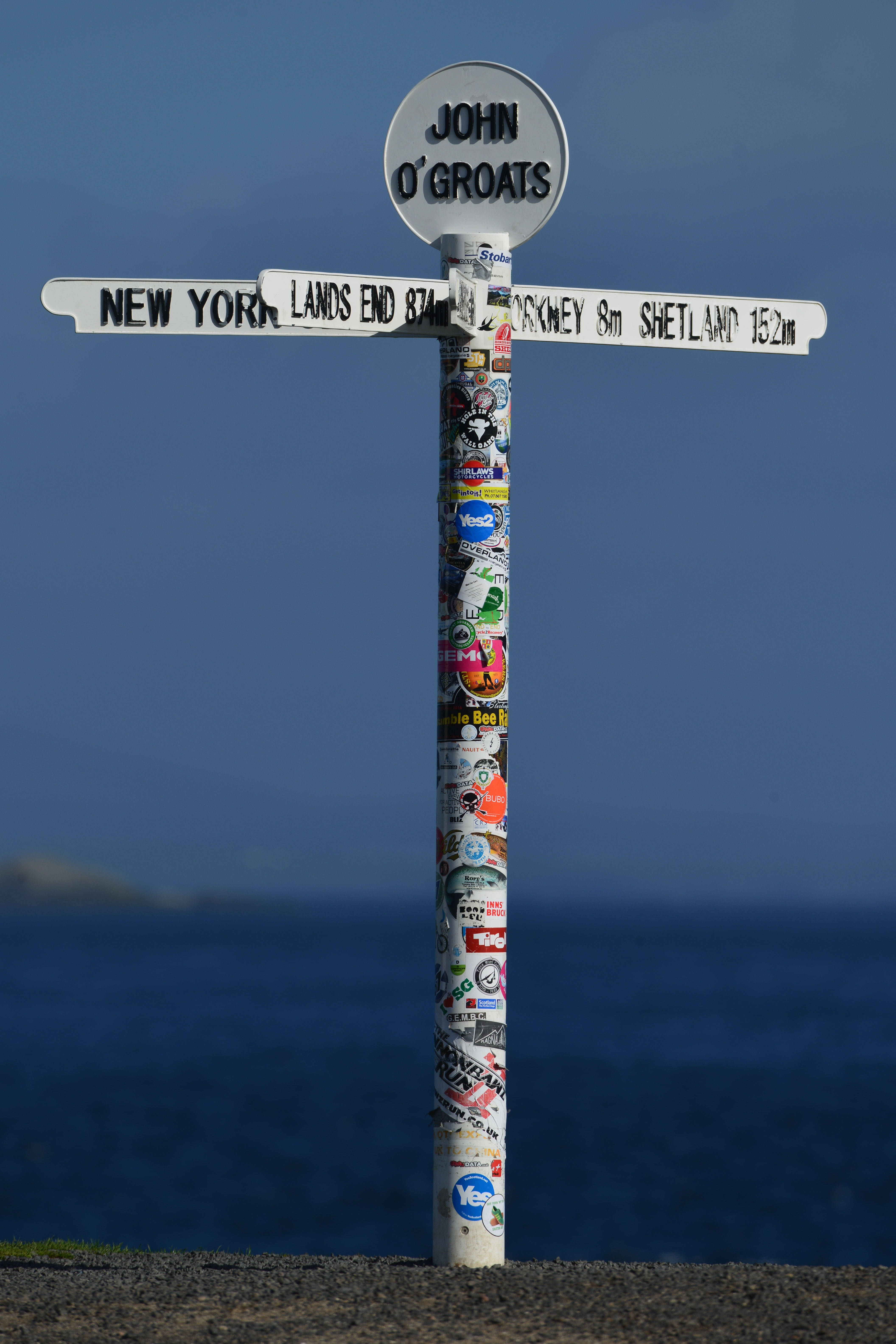 A signpost at John o' Groats, the traditional northernmost point in Great Britain, displaying the distance to various other landmarks.